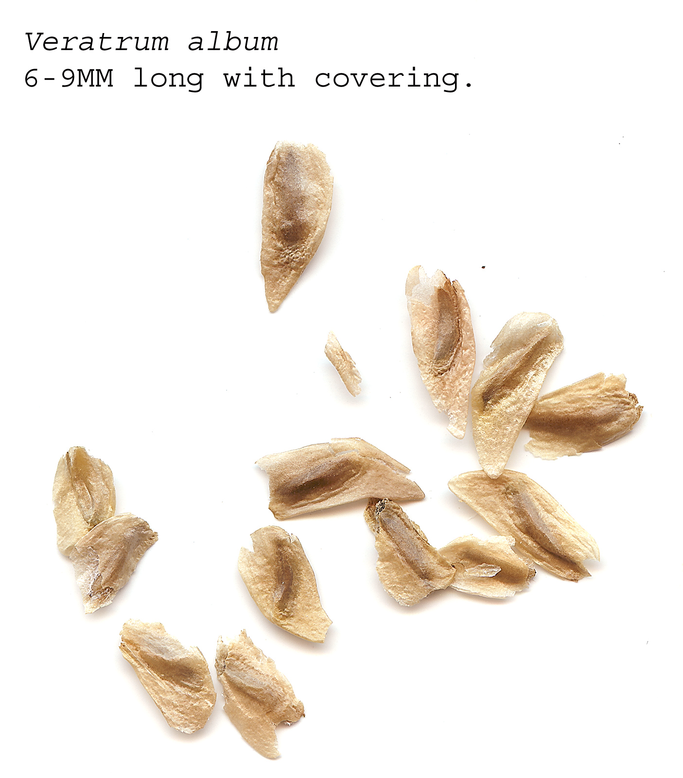 Self made scan of the seeds of Veratrum album, made 01/2008.